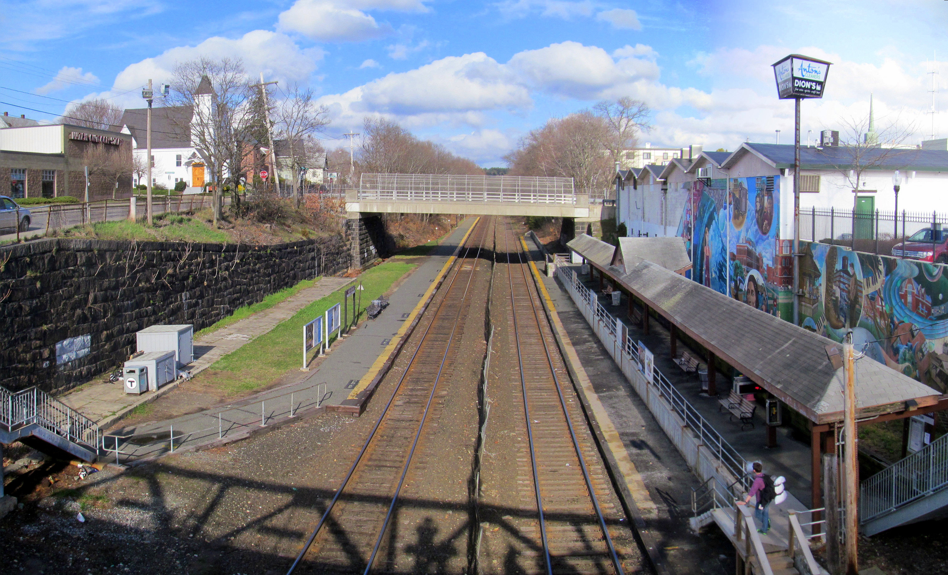 Natick Center station in April 2016